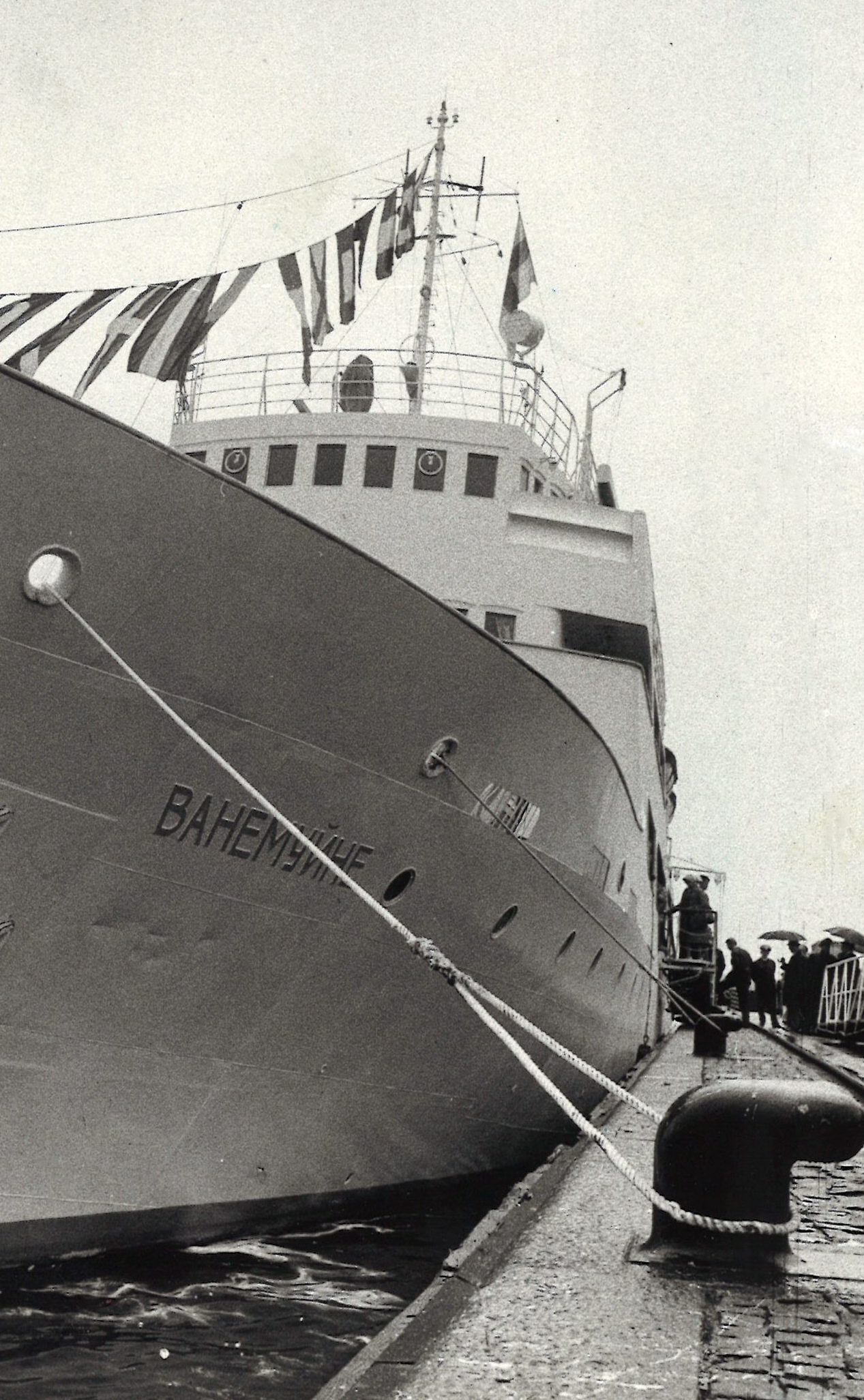 Passenger ship Vanemuyne for the first time in Helsinki (Eteläsatama) in July 1965